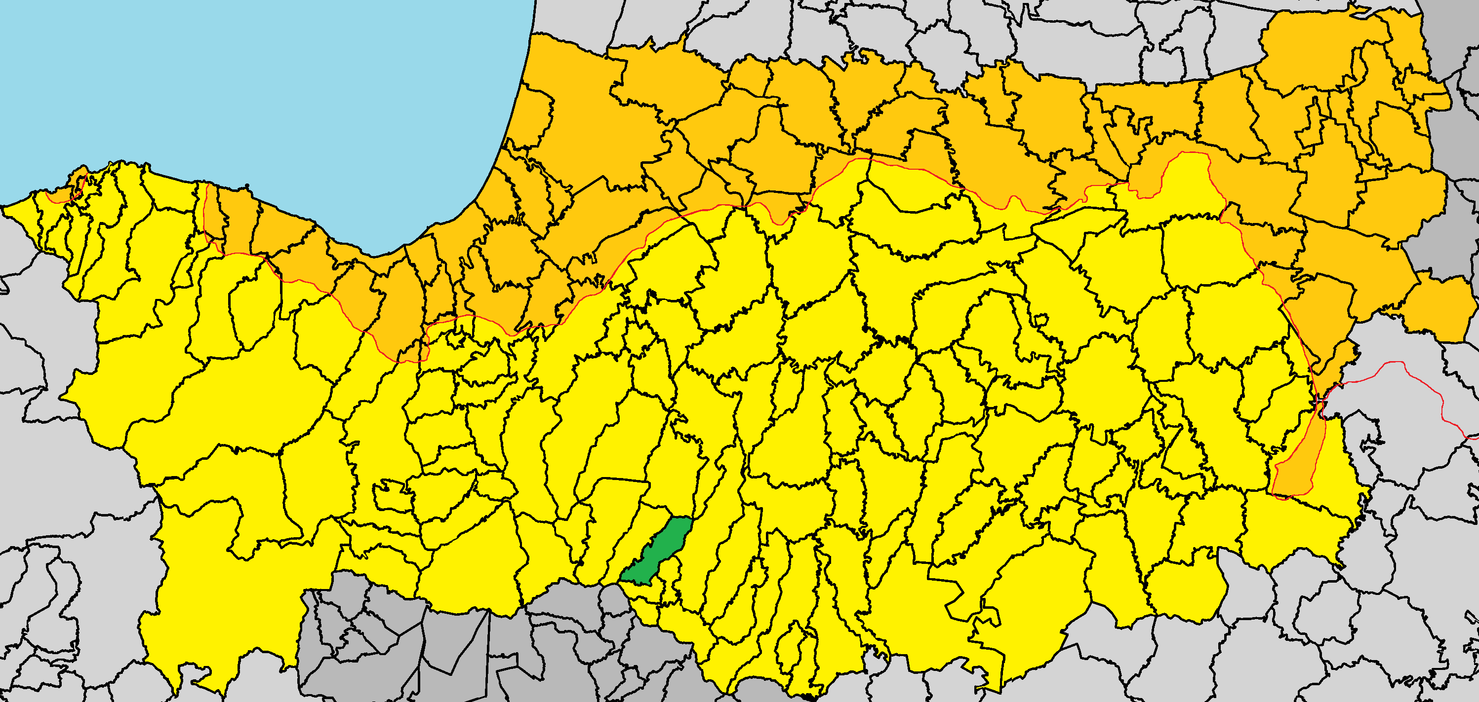 Lagoudera in Nicosia District.